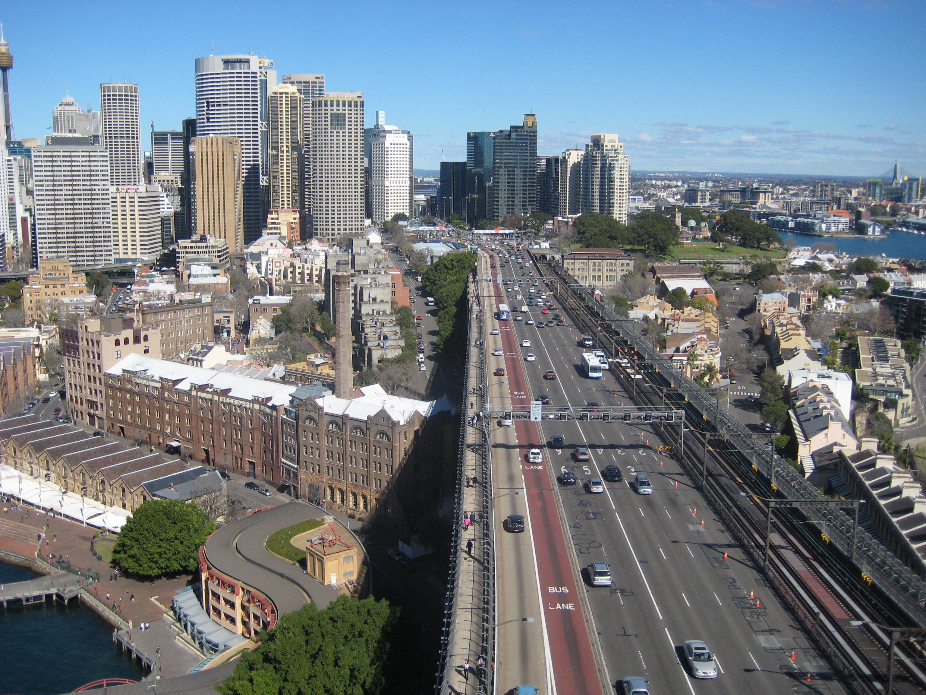 highway+downtown taken from top of Sydney Harbor bridge tower